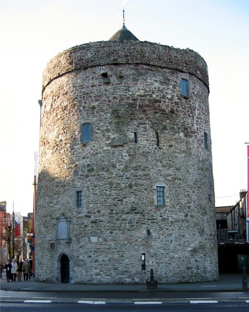 Reginalds Tower Reginald's Tower is the oldest civic urban structure in Ireland built around the 10th century. It was originally part of the Viking city of Waterford.